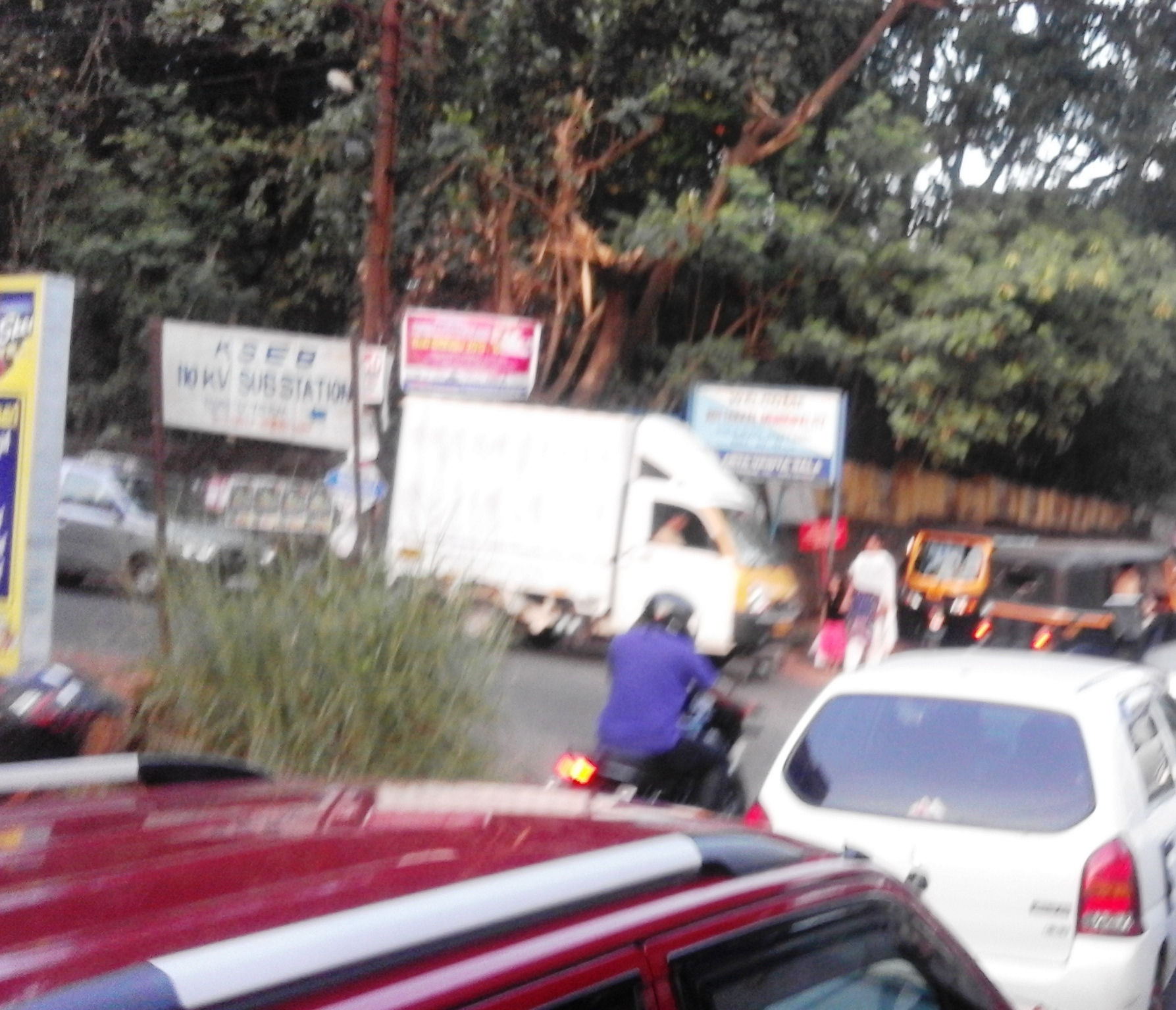 Edarikode, Kottakkal, Malappuram, India.